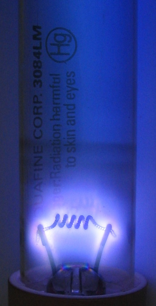 Glow of a germicidal lamp as excited by a high voltage probe (handheld tesla coil).